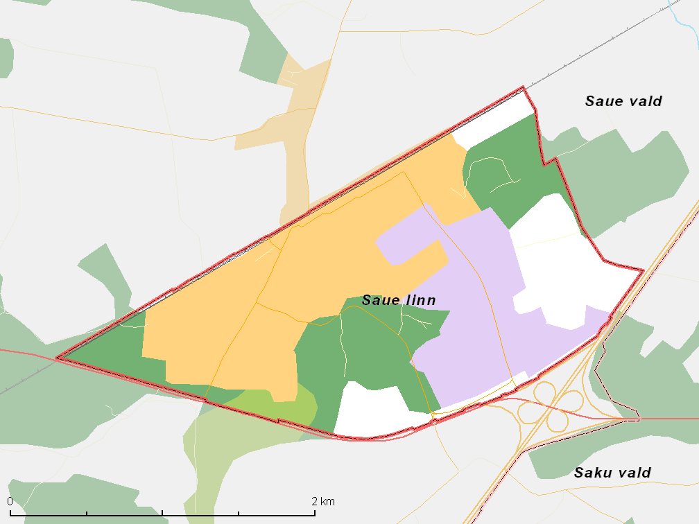 Map of municipality in Estonia